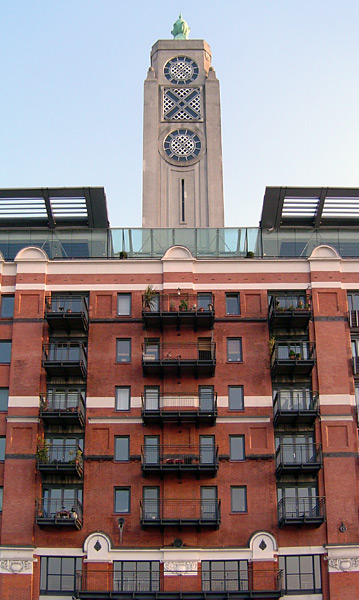 OXO Tower, Southwark, London.